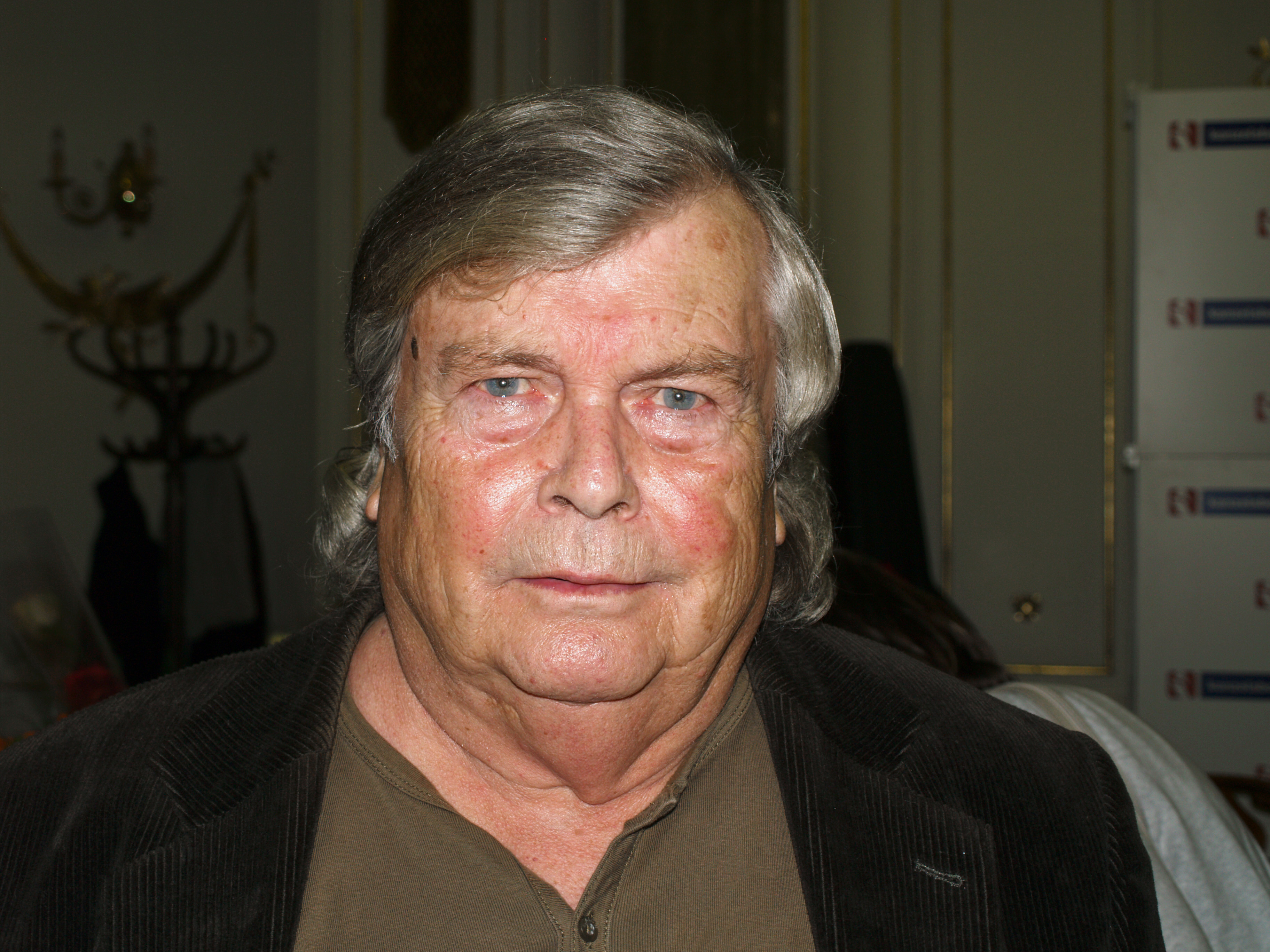 Czech poet, lyricist and journalist Pavel Vrba.